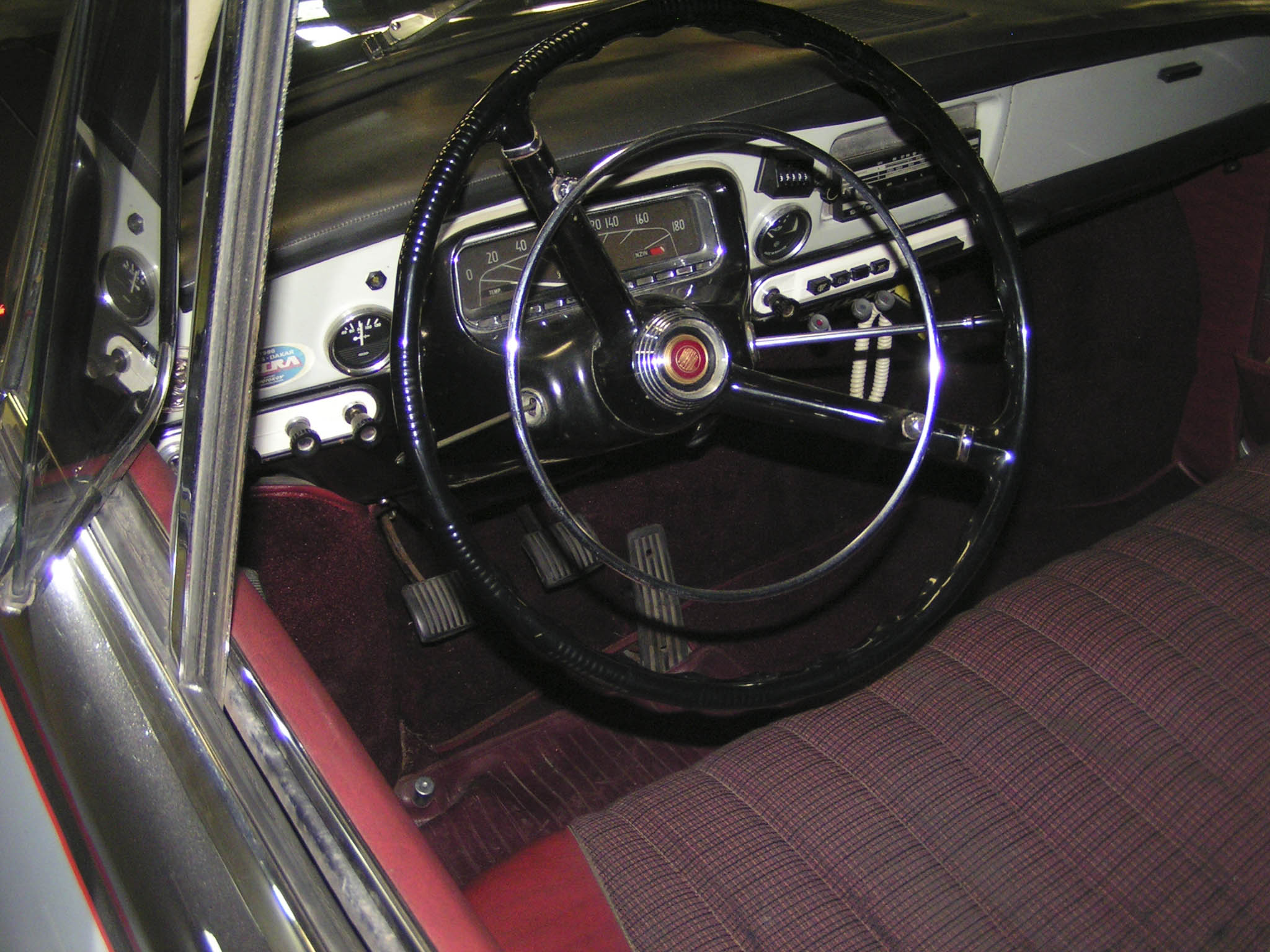 This 1967 Tatra 603 was originally property of a Czech State plant and is in fantastic shape but has only received paint and chrome restoration.1967 Tatra 603